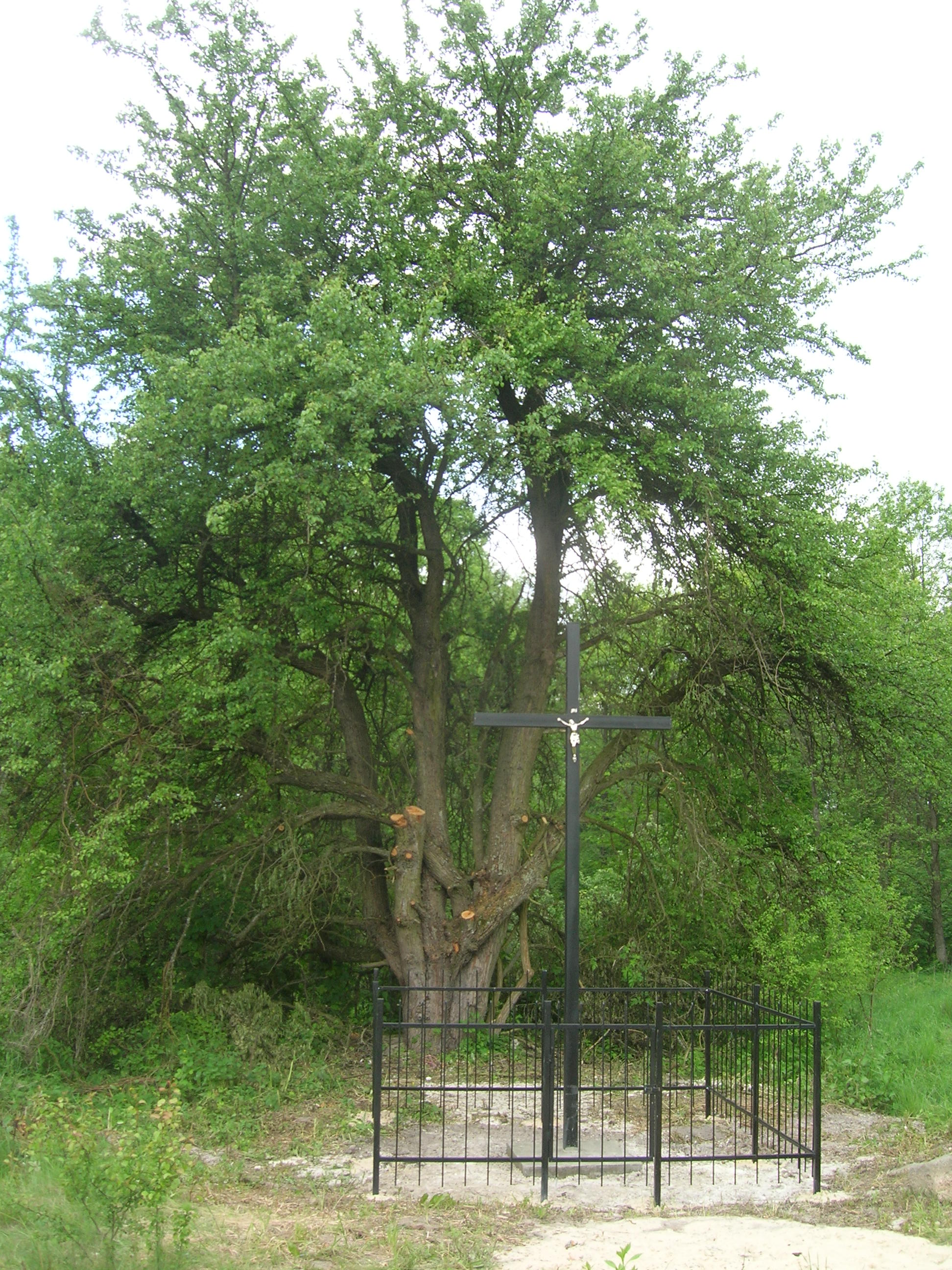 Mass grave site in Wola Ostrowiecka